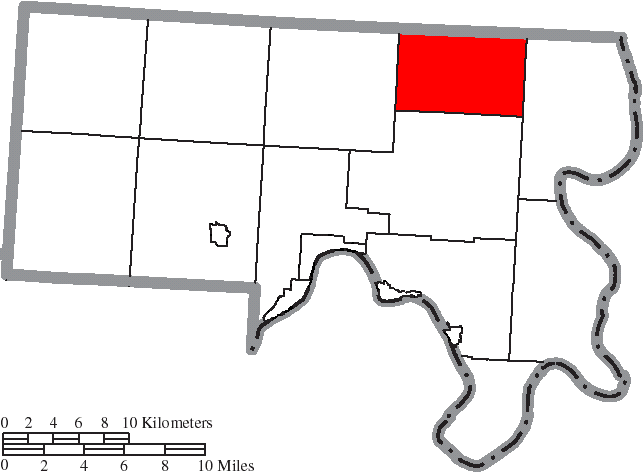 Map of the municipal and township boundaries of Meigs County, Ohio, United States, as of the 2000 census, with the location of Orange Township highlighted. Township borders are shown only in unincorporated areas in order to differentiate incorporated and unincorporated areas more clearly.